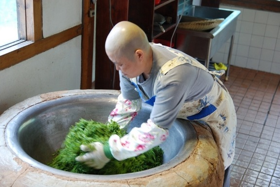 A bhikkhuni roasting tea leaves in Daejeon, Korea